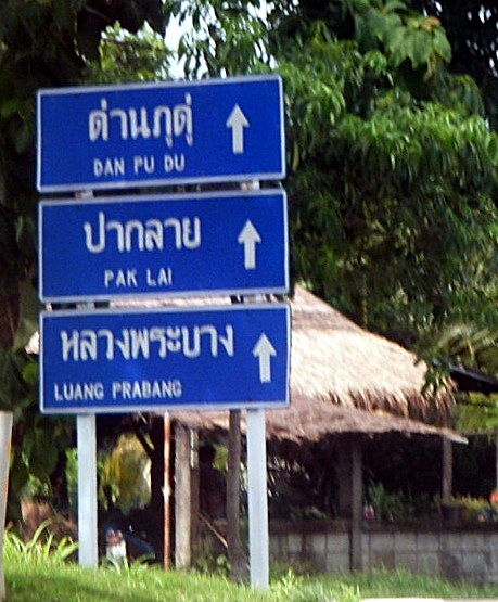 Thai HighwayLocation: Mueang Uttaradit, Uttaradit Province, Thailand. This image (or all images in this category/page) is very small, unfixably too light/dark, or may not adequately illustrate the subject of the picture. If a higher-quality image is available please consider replacing this one; otherwise, a replacement under a free license should be found or provided. Please see Category:Image cleanup templates for templates used to mark images that only need a clean-up. For more help, see Commons:Media for cleanup#Low quality pictures.